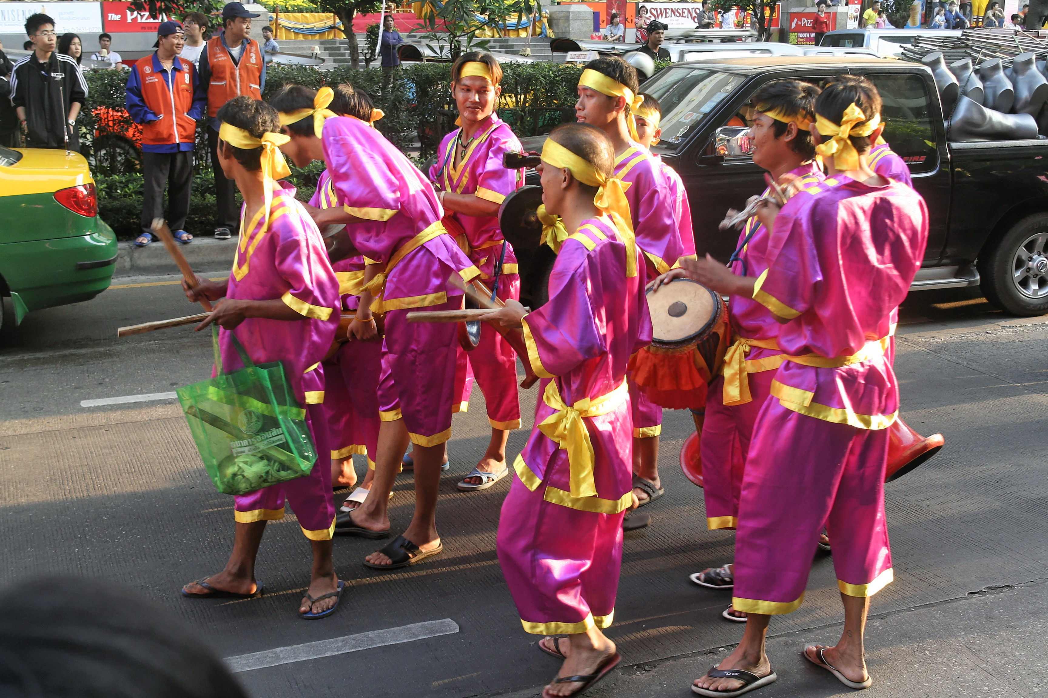 Gay Festival, Bangkok, Thailand